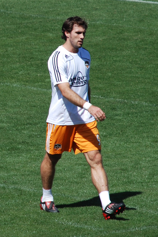 Soccer player Brian Mullen in Huston, Texas